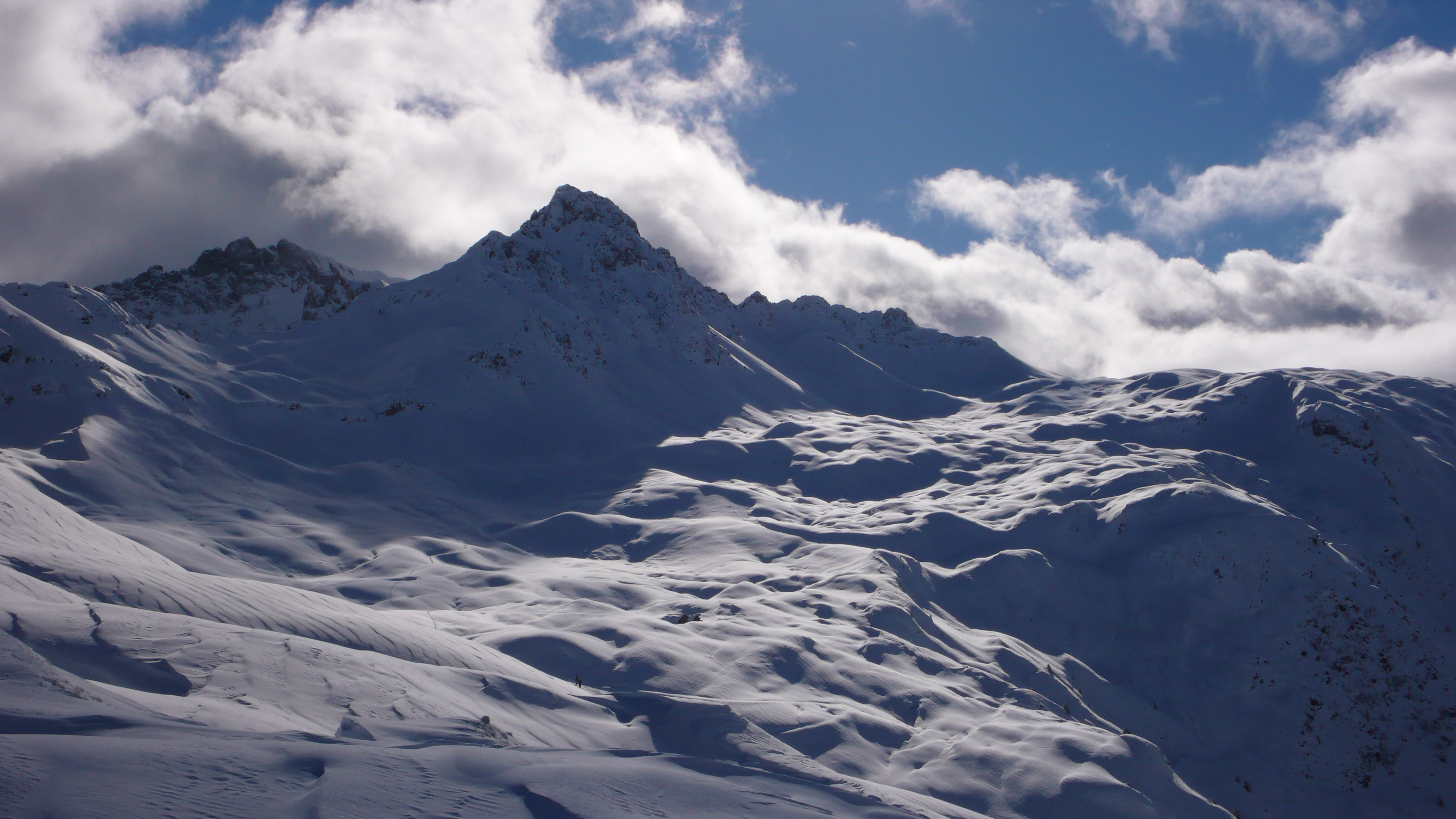 Tête de la Cicle Object location45° 45′ 16.92″ N, 6° 41′ 11.76″ E